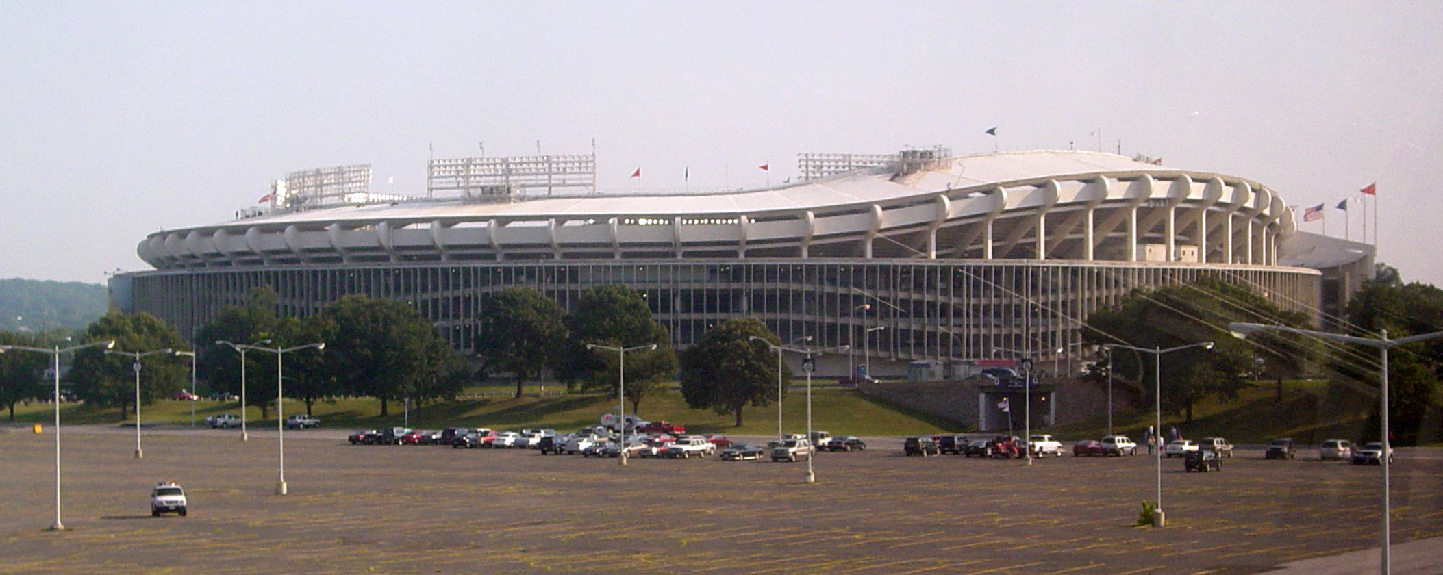 RFK Stadium in Washington DC as seen from the D Route bridge on the Washington Metro. Photo by Ben Schumin on July 20, 2005.